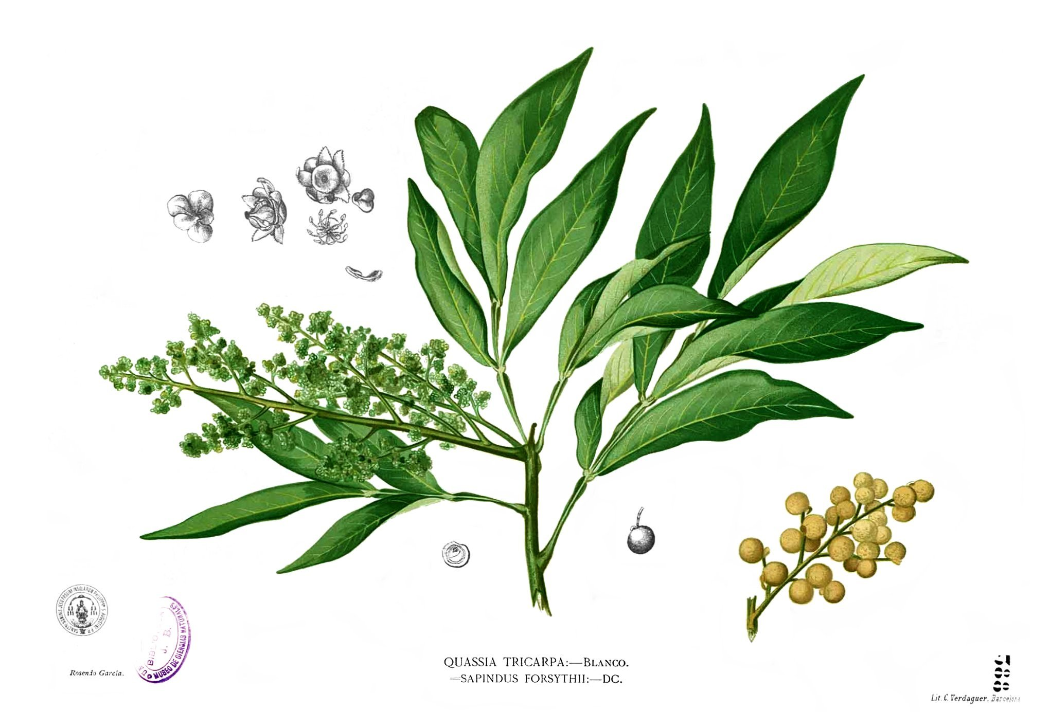 Plate from book